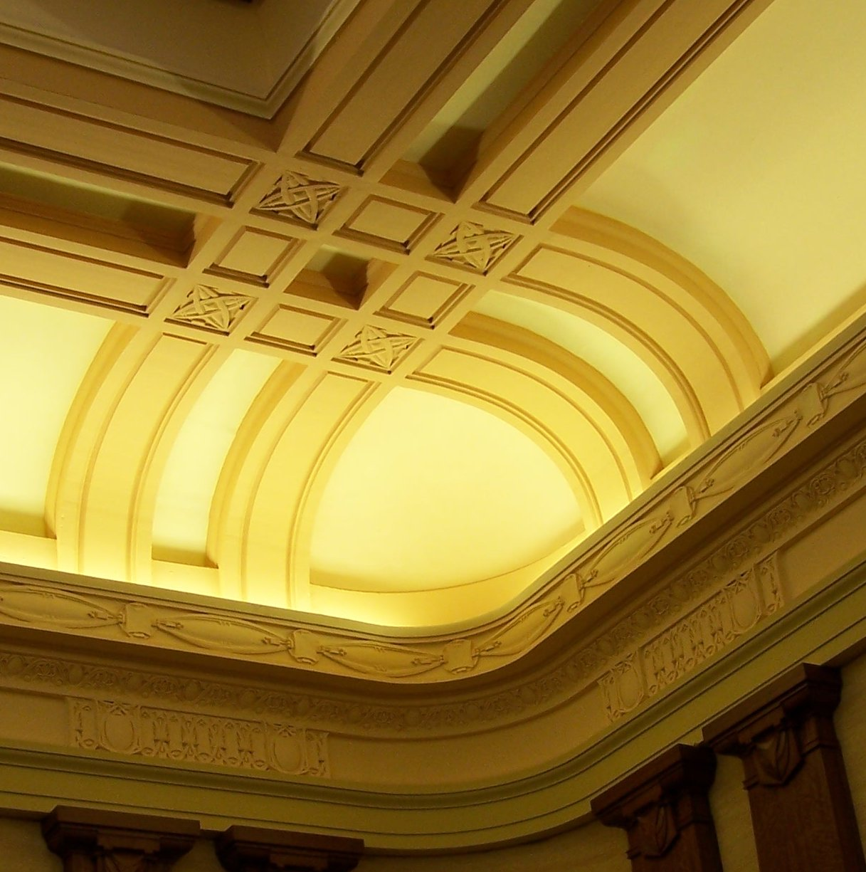 Oregon Supreme Court Building courtroom ceiling